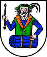 Source: "Fahnen-Gärtner GmbH, Mittersill" This image shows a flag, a coat of arms, a seal or some other official insignia. The use of such symbols is restricted in many countries. These restrictions are independent of the copyright status.